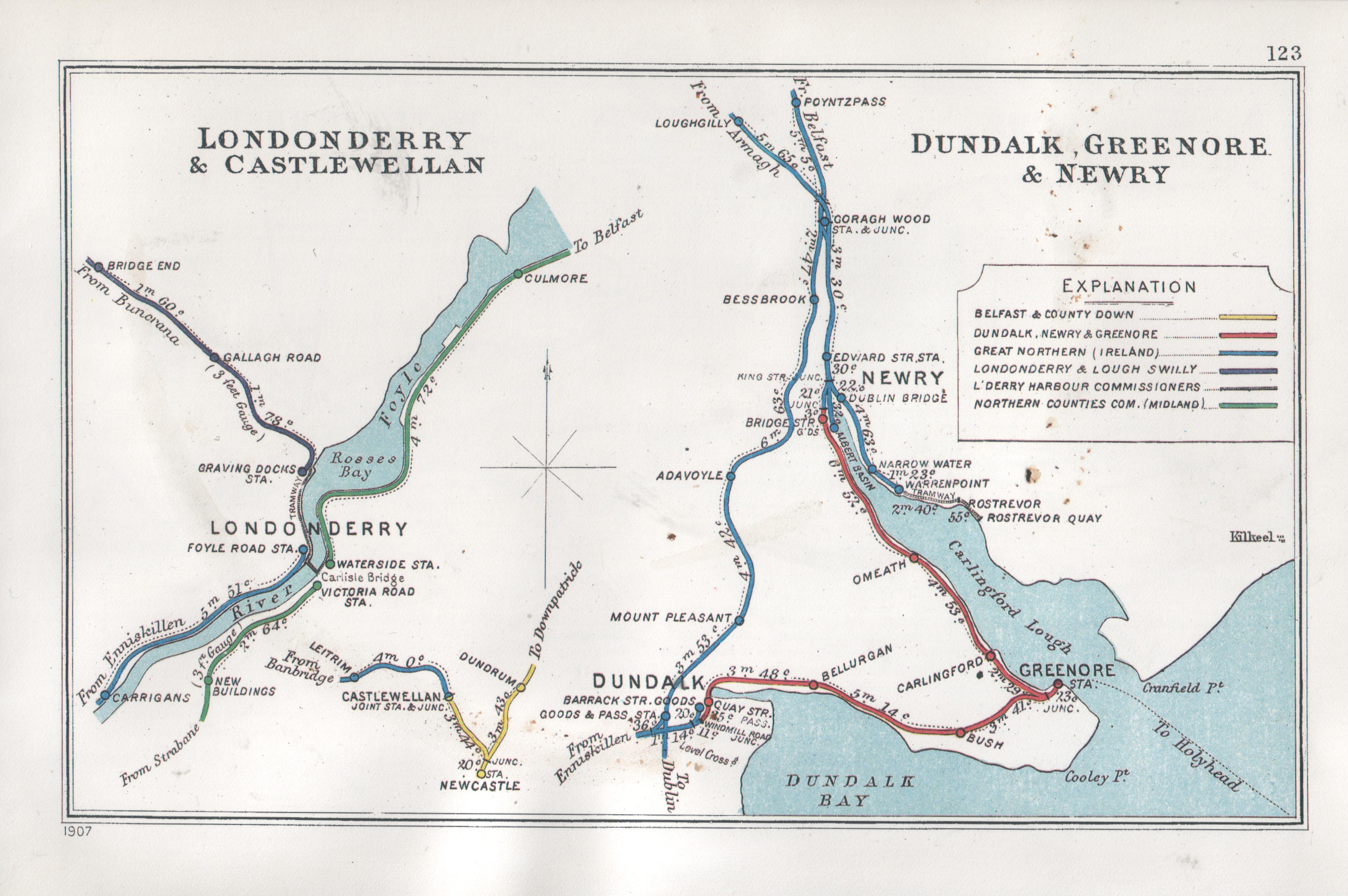 Railway Junctions in Londonderry & Castlewellan; Dundalk, Greenore & Newry pre grouping